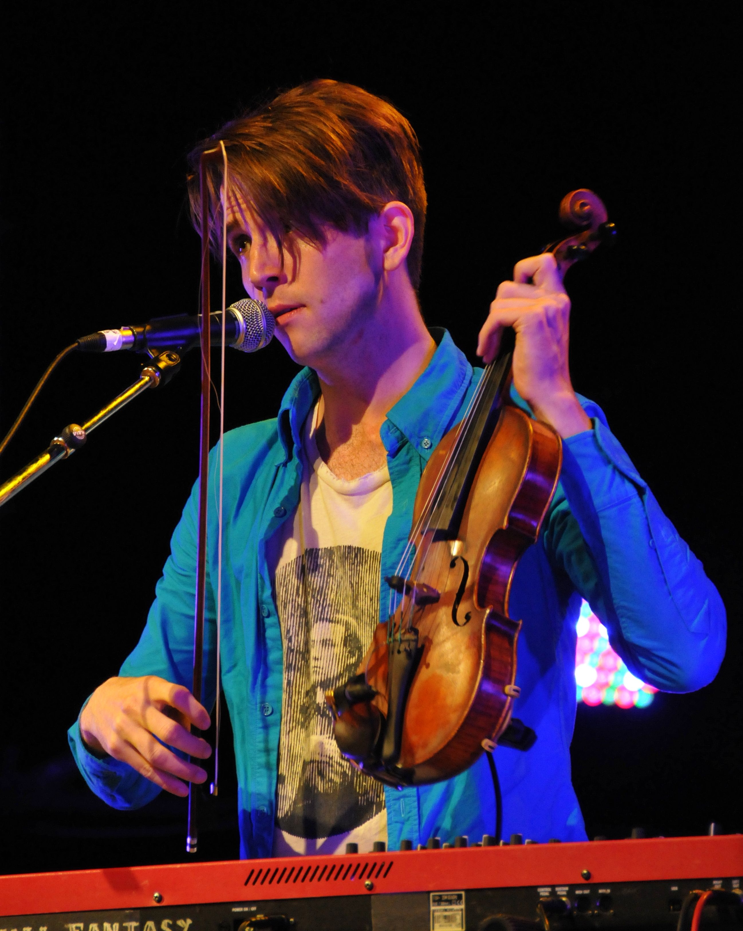 Final Fantasy (Owen Pallett) performs at Hillside 2009 on the last day of the festival.